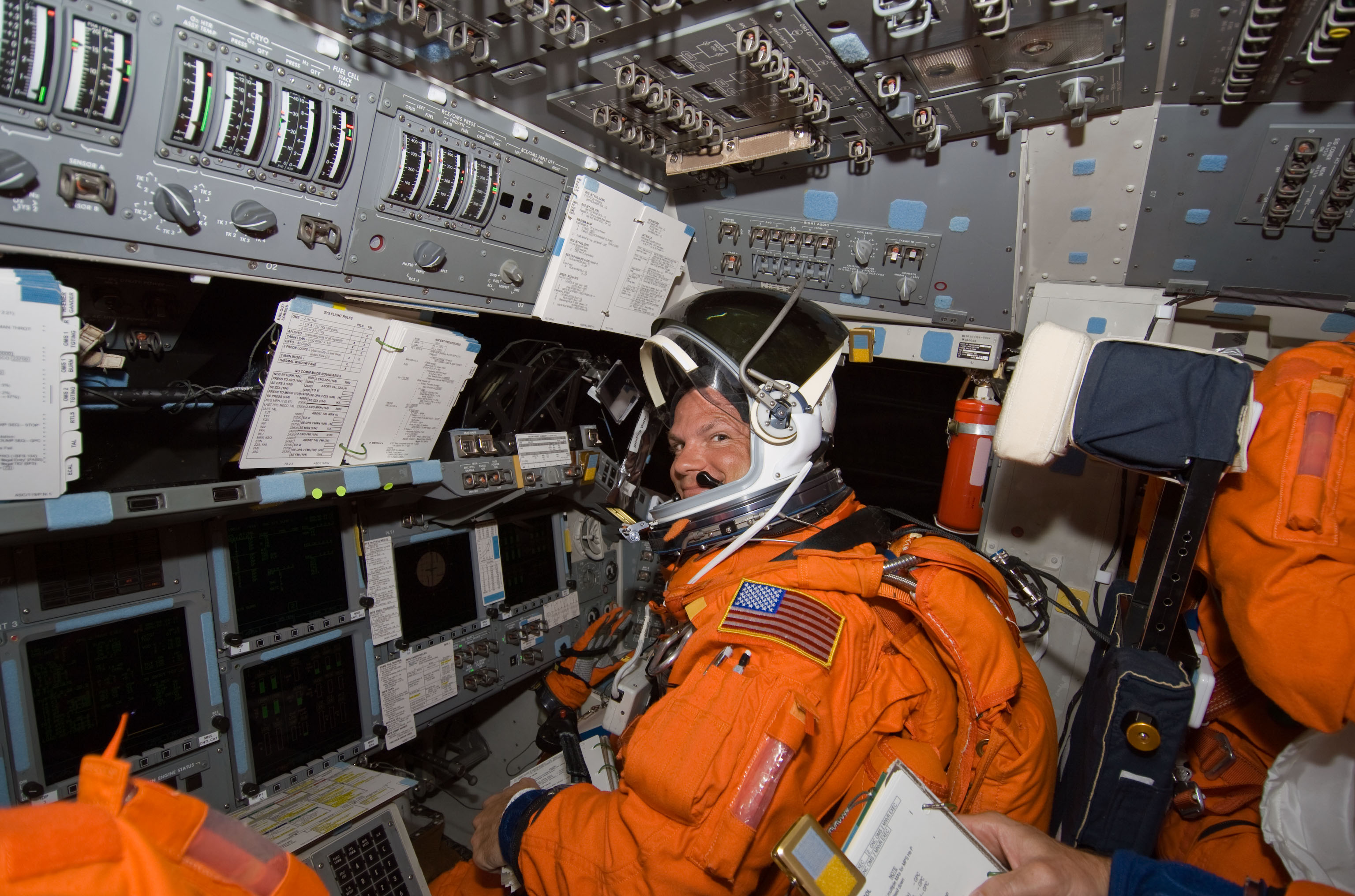 Astronaut Tony Antonelli, STS-119 pilot, attired in his shuttle launch and entry suit, takes a moment for a photo while occupying the pilot's station on the flight deck of Space Shuttle Discovery during postlaunch activities.